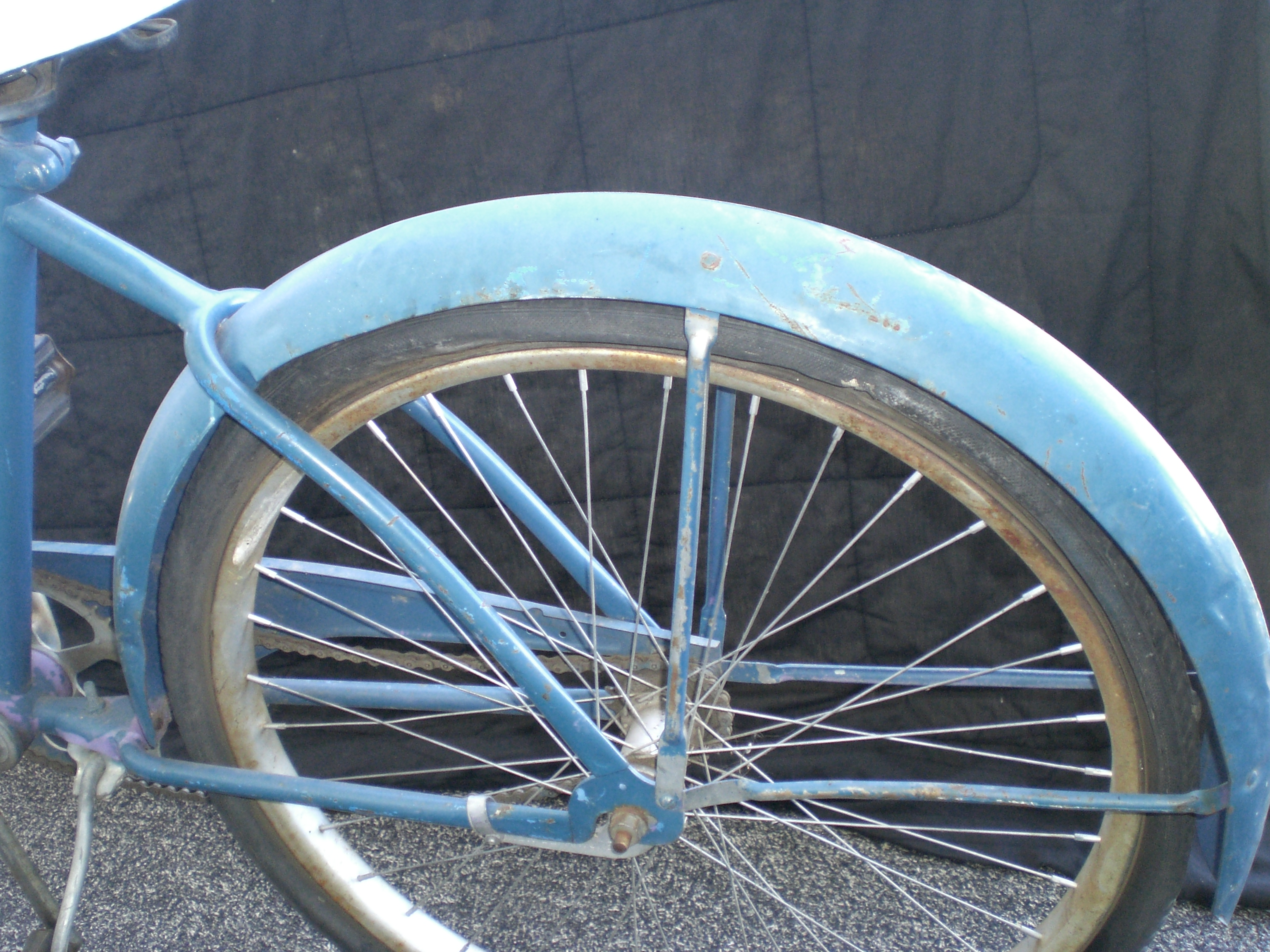 1949 Goodyear Fender